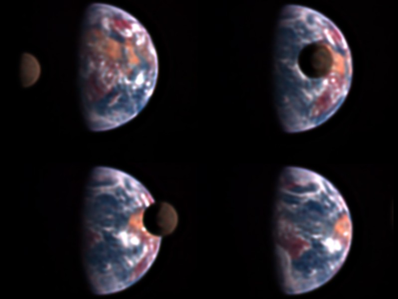 Earth and Moon taken from 50 million kilometers by Deep Impact